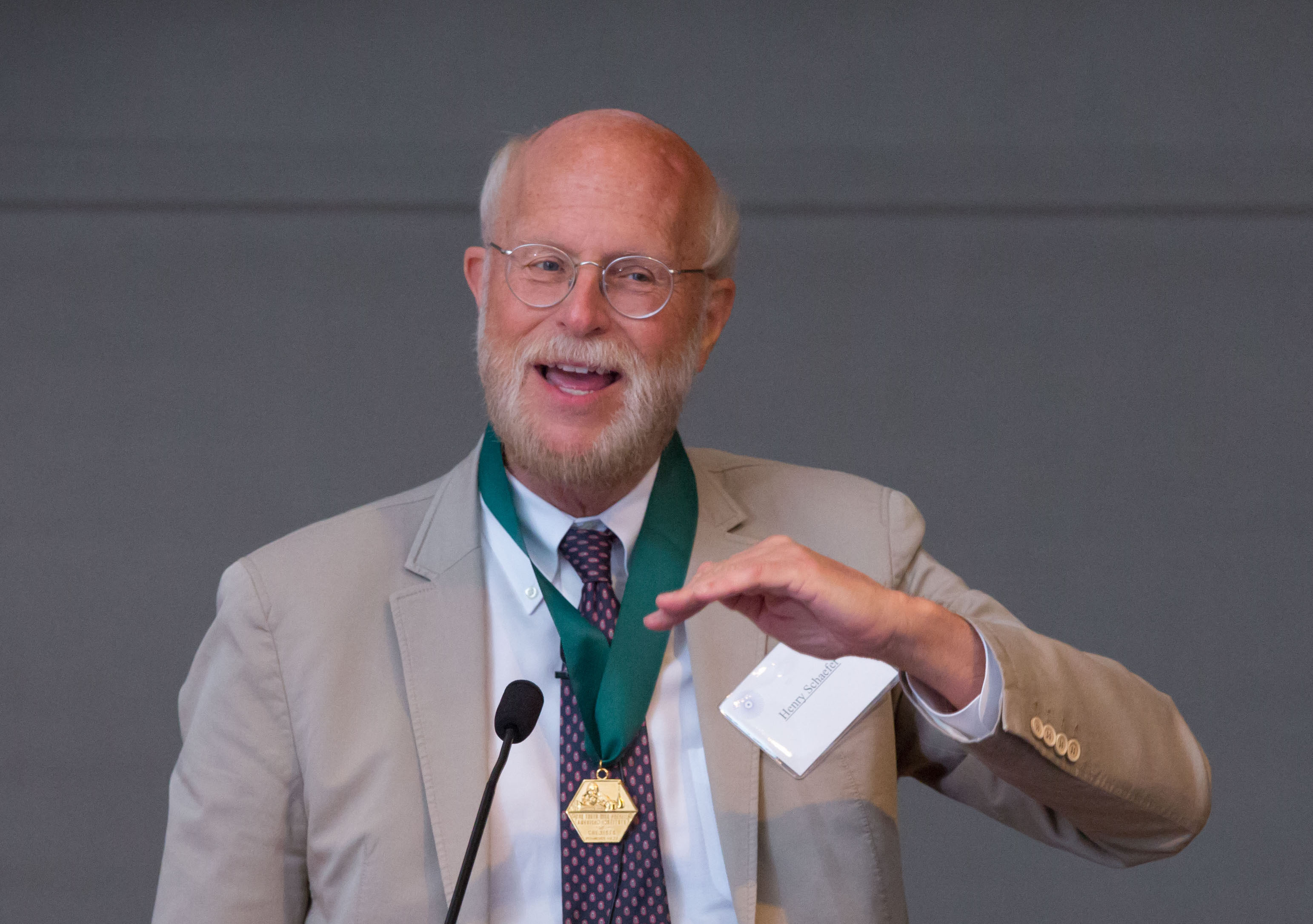 Photograph of chemist Henry F. Schaefer III, professor of chemistry at the University of Georgia, with the AIC Gold Medal, awarded May 8, 2019, at the Science History Institute.